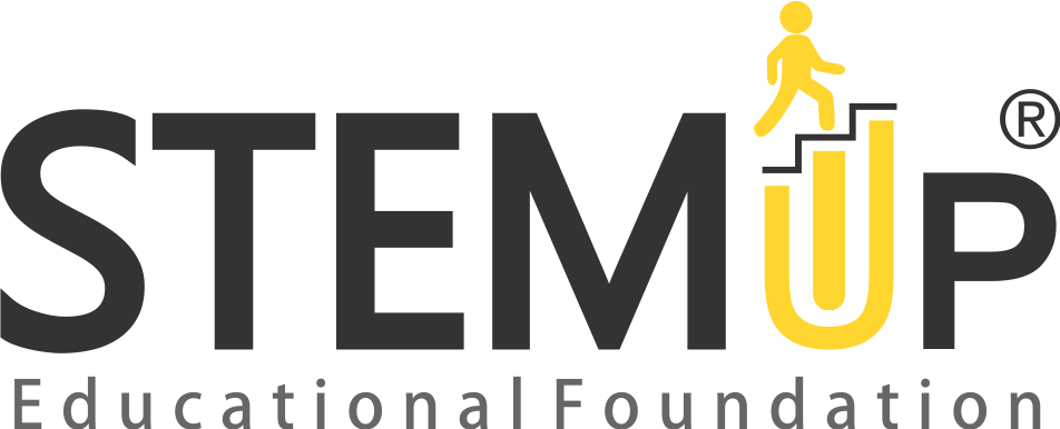 STEMUp Educational Foundation Logo